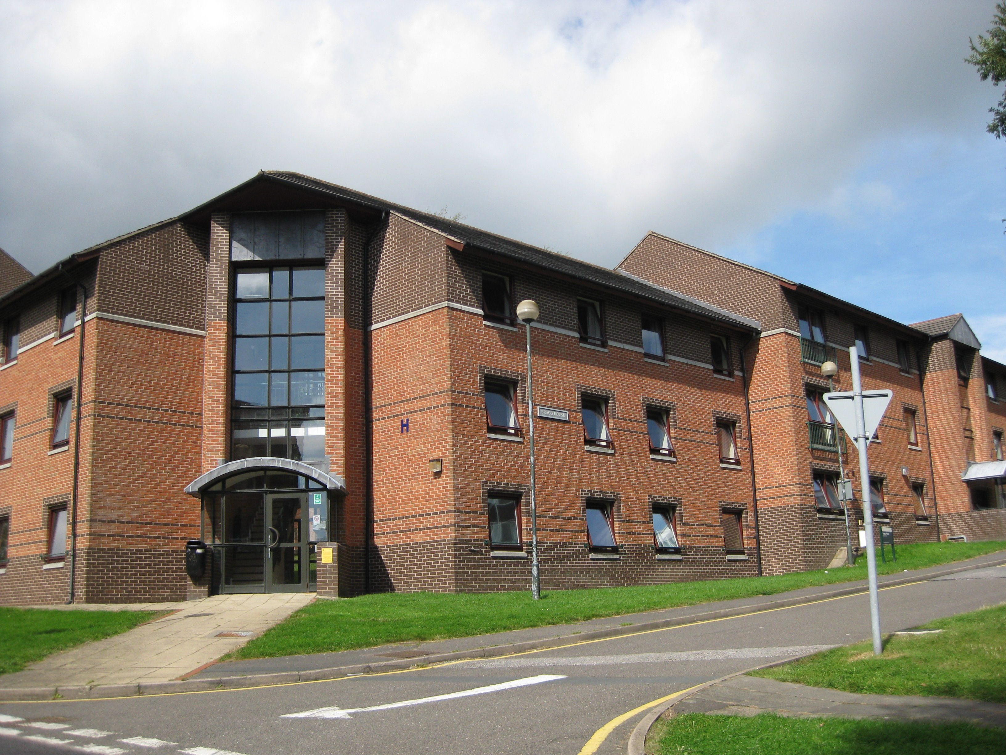 Bragg House. Student flats within the Bodington Hall group of the University of Leeds. LS16 5PT